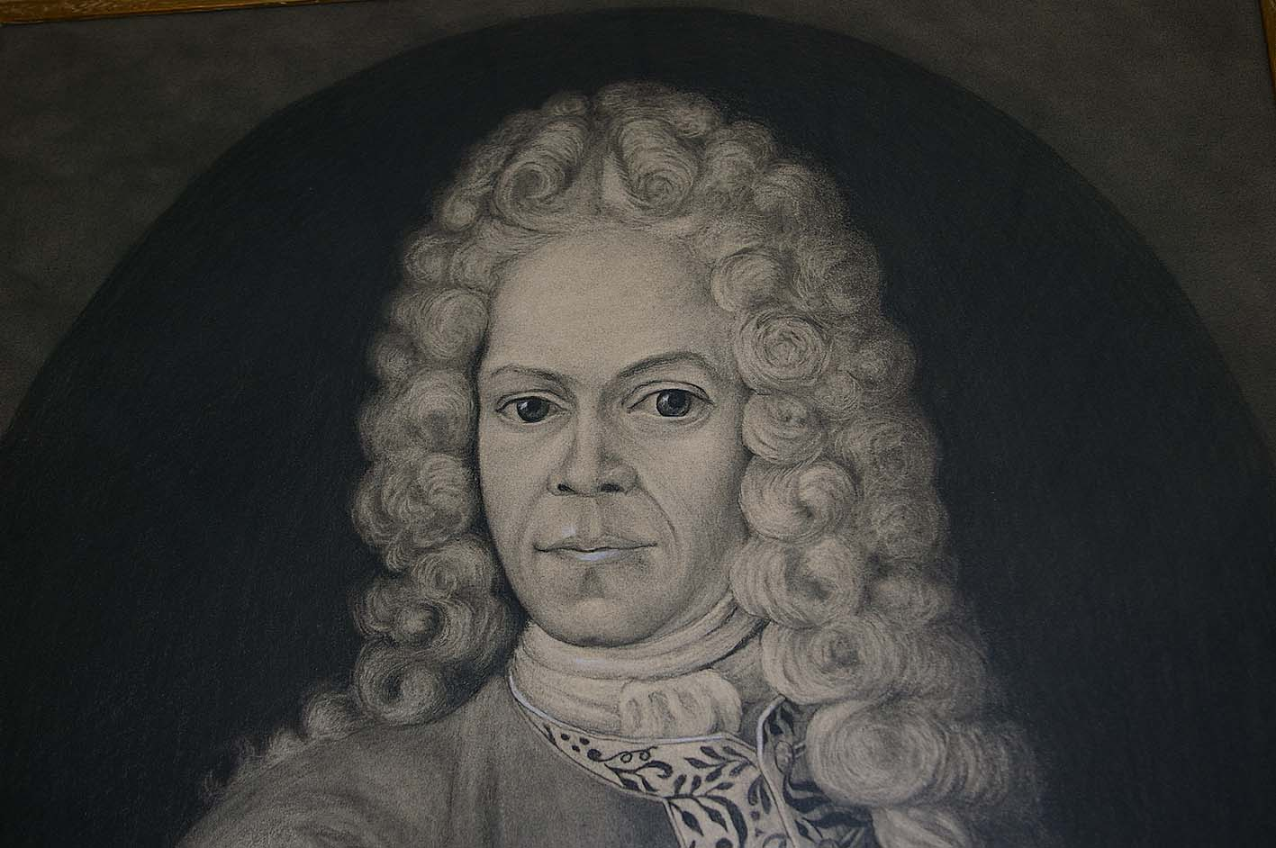 The town hall of Skanör Sweden from 1777.